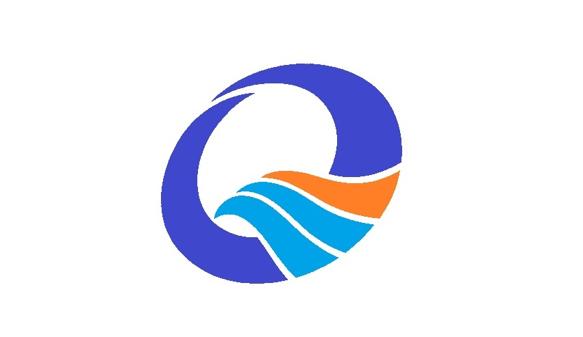 Flag of Minamiosumi Kagoshima